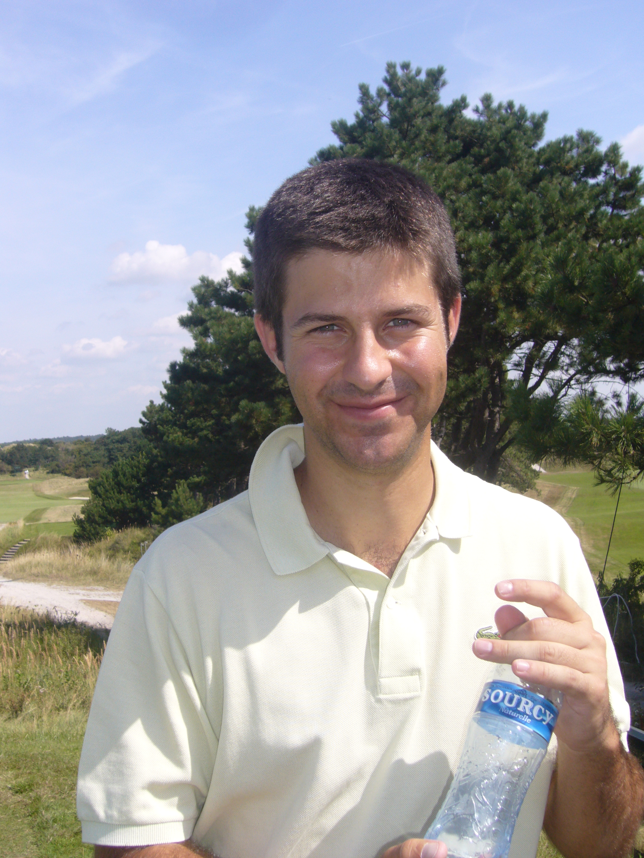 Jorge Campanillo, Spanish professional golfer at KLM Open 2009